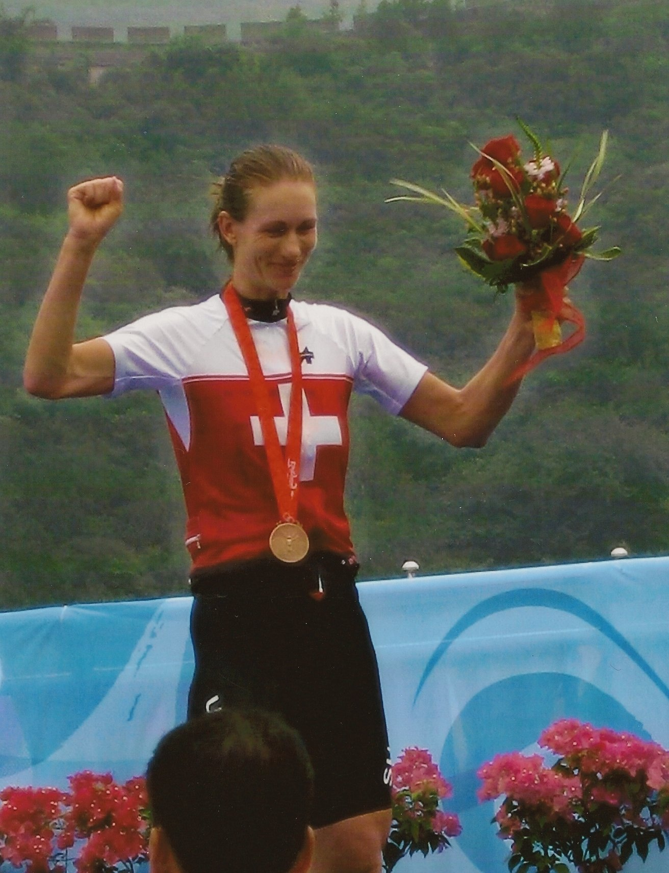 Karin Thürig with her bronze medal at the 2008 summer olympics.